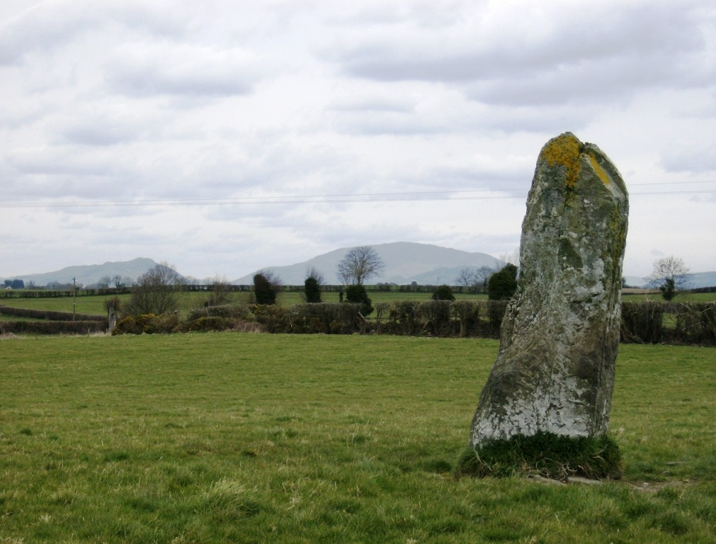 Clochafarmore, Rathiddy, Knockbridge, County Louth